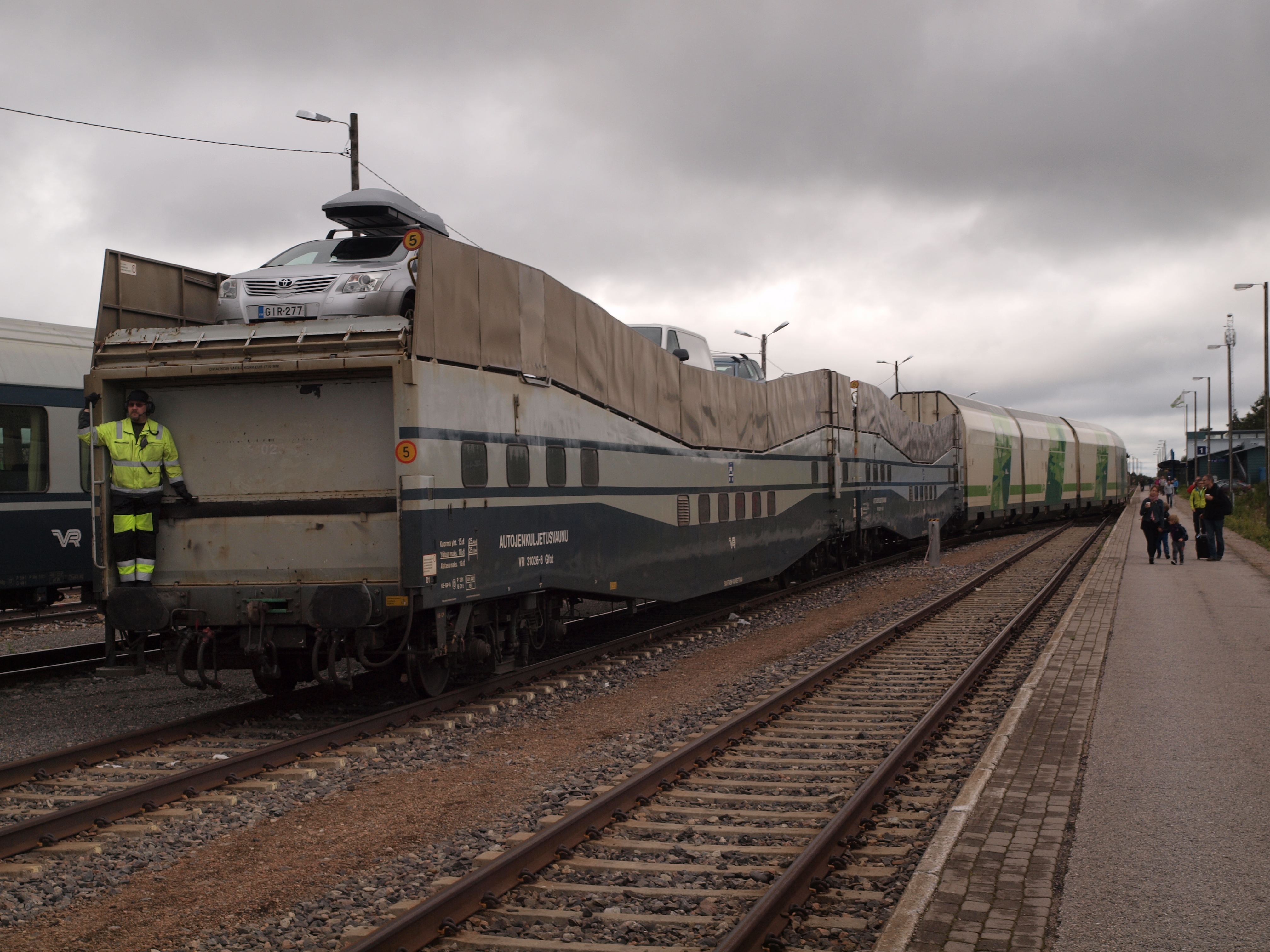 A double-decker car transport train carriage at Kolari railway station in Lapland, Finland, going to unload the cars. The train has arrived at Kolari in early morning, having left Helsinki in the previous evening.